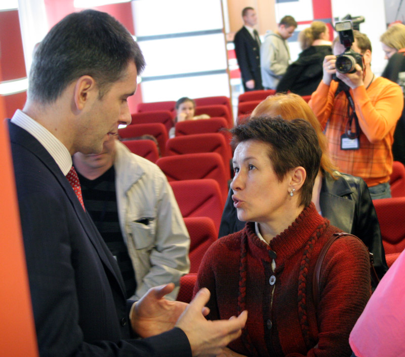 Elena Vaitsehovskaja